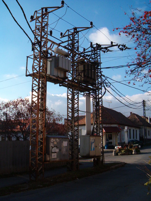 Two three-phase pylon-mounted transformers in Budakeszi, Hungary